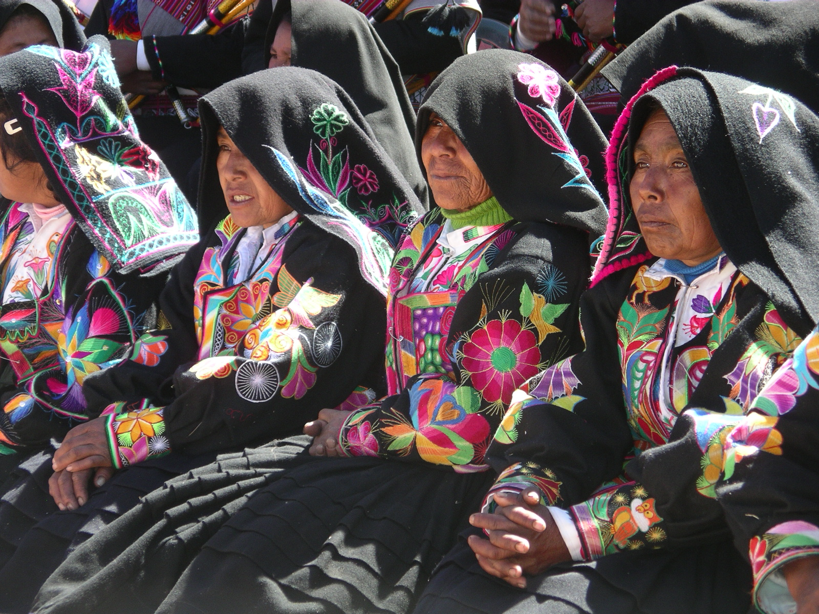 On 25th of July the Island of Taquile is celebrating its Saint. Men and women wear traditional clothing.